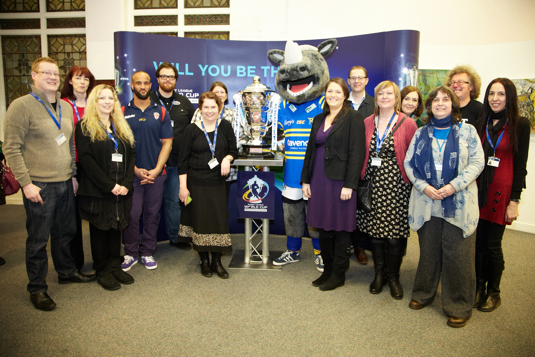 Rugby League World Cup Event at Leeds Central Library. Jamie Jones Buchanan Councillor Katherine Mitchell, Leeds City Council's support executive member for leisure and skills, Craig Bradley and the staff from Leeds Libraries. Taken by Fklickr user:Leeds Library and Information Service at Leeds Central Library on Saturday the 9th of February 2013.